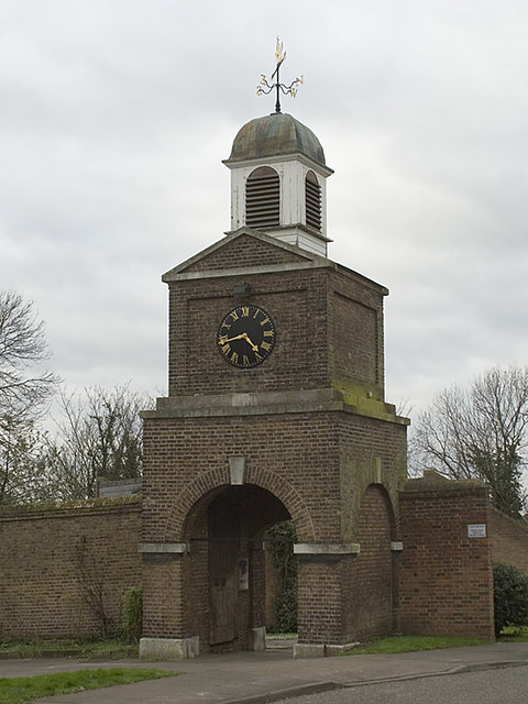 Gateway/Clocktower at Purfleet I have seen this Gateway/Clocktower many times but I don't know anything about it. Can anyone shed some light on its history or purpose etc?